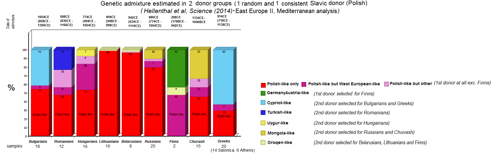 Left: "East Europe II analysis" on autosomal makeup of East European populations in two donor groups by A Genetic atlas of human admixture history. The analysis was centered on Eastern Europe with the main admixture event being the Slavic expansion and hereof, on a consistent to all receipents indication of the Slavic expansion by analyzing only a single Slavic-speaking population (Polish) as either of the two donor populations of the recipient populations. The authors speculate the Polish ancestral component may correspond to the Slavic expansion. The second donor group of the recipient populations is random and not consistent at all. The analysis included also all European populations, other than Slavic-speaking, as donors. Non-European populations, that were excluded as donors were Oceanian, African, Southeast Asian, because no signs of their admixture was detected.Right: "Mediterranean analysis" on autosomal makeup in two donor groups. It was centered on Sub-Saharan indication and excluded the Americas, Middle East, North Africa, Oceania and the Slavic-speaking populations, other than Polish, as donors .Notes: The Genetic atlas always estimated in two donor groups without shared proportions, so the alikeness to one donor group of a recipient population is not completely figured, for instance the observed two donor groups of South Italian are Tuscan-like and Cypriot-like, but the Tuscans resulted significantly Cypriot-like themselves. For the formulas used to estimate admixture times and admixing groups, see [1](page 23-36).